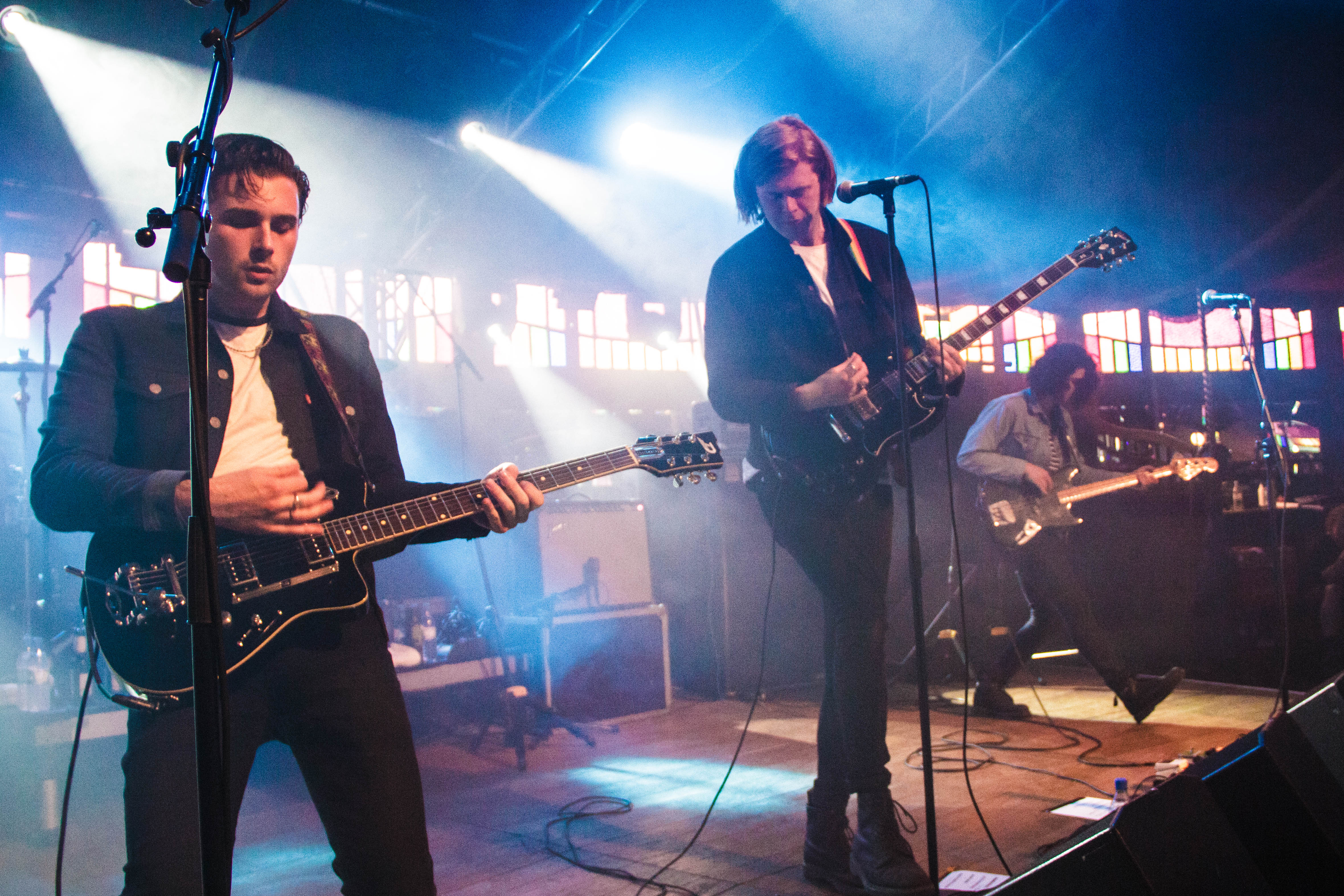 The Amazons at Haldern Pop Festival 2017